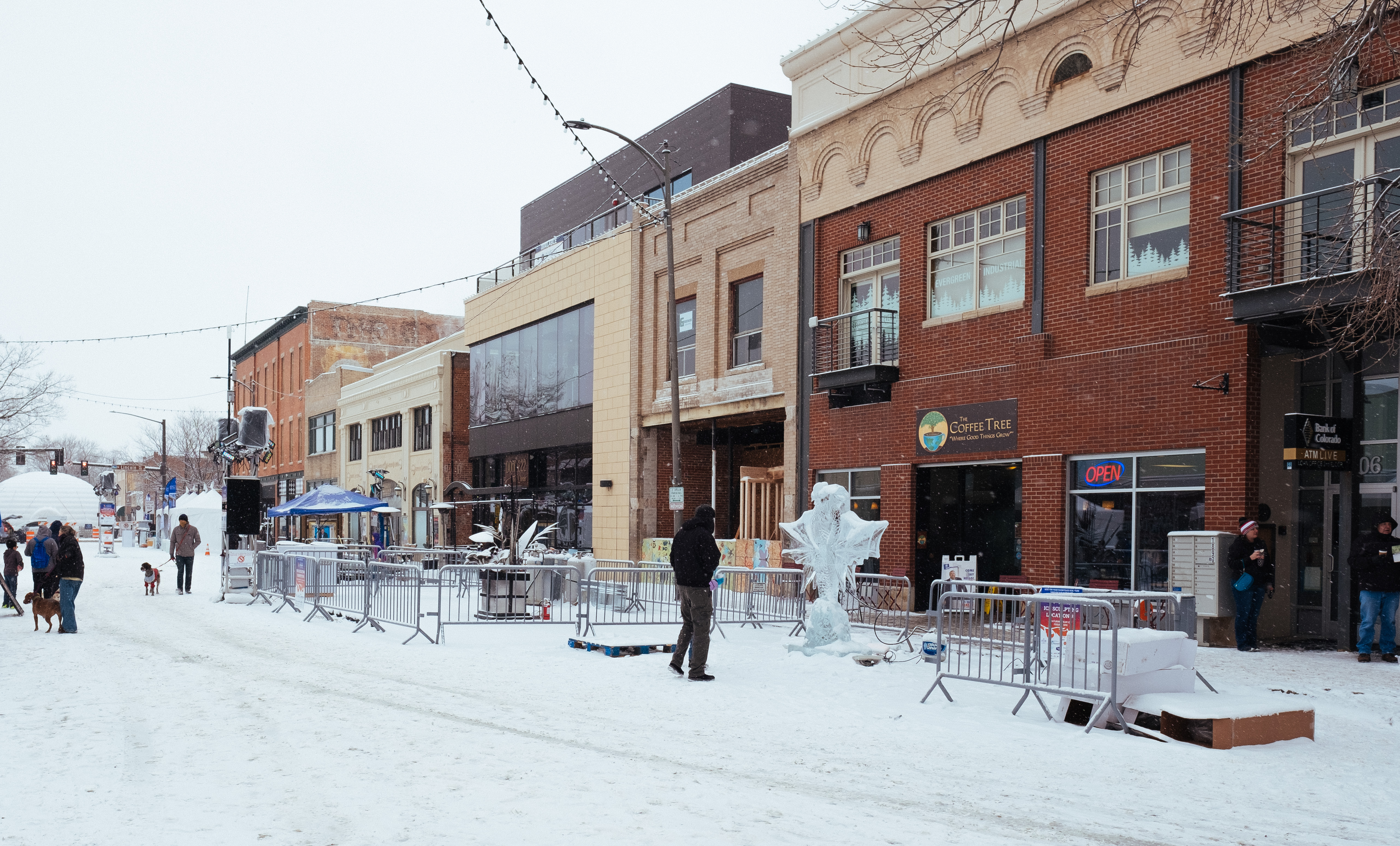 Early morning at the Loveland Fire and Ice Festival